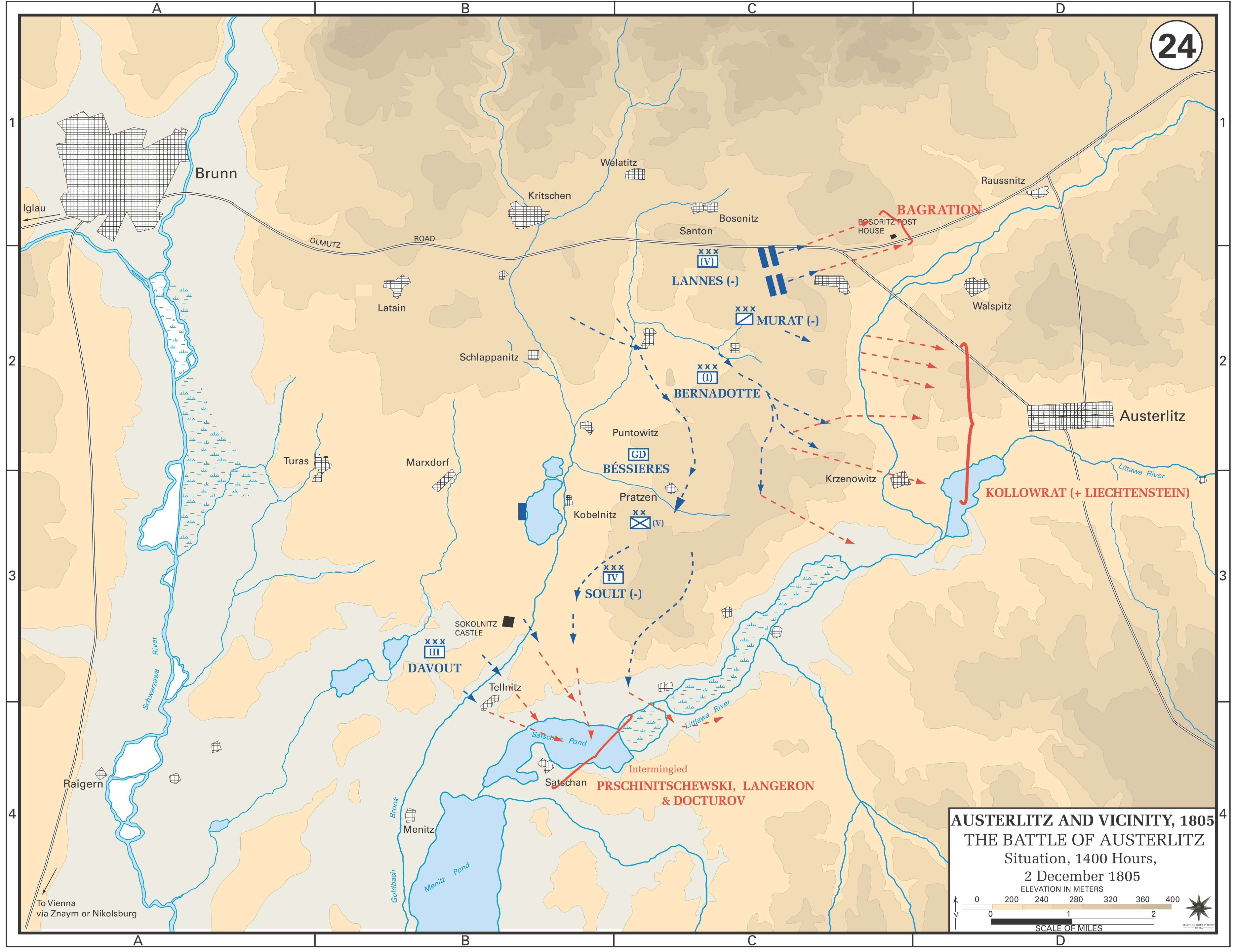 Battle of Austerlitz - Situation at 1400, 2 December 1805